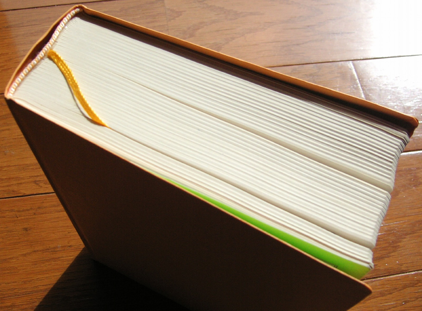 Bookmarks made of strings. Spin.